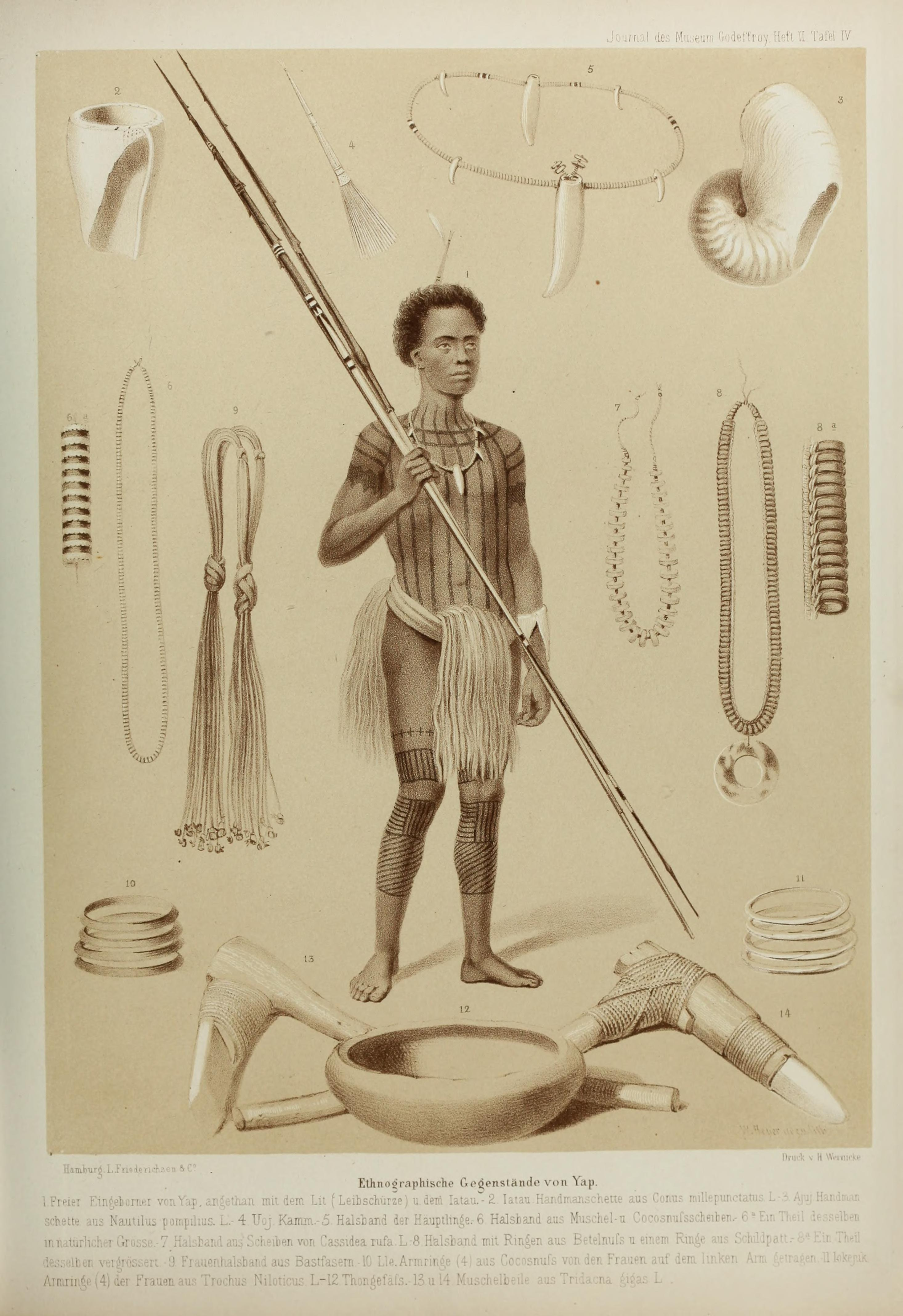 Journal des Museum Godeffroy.